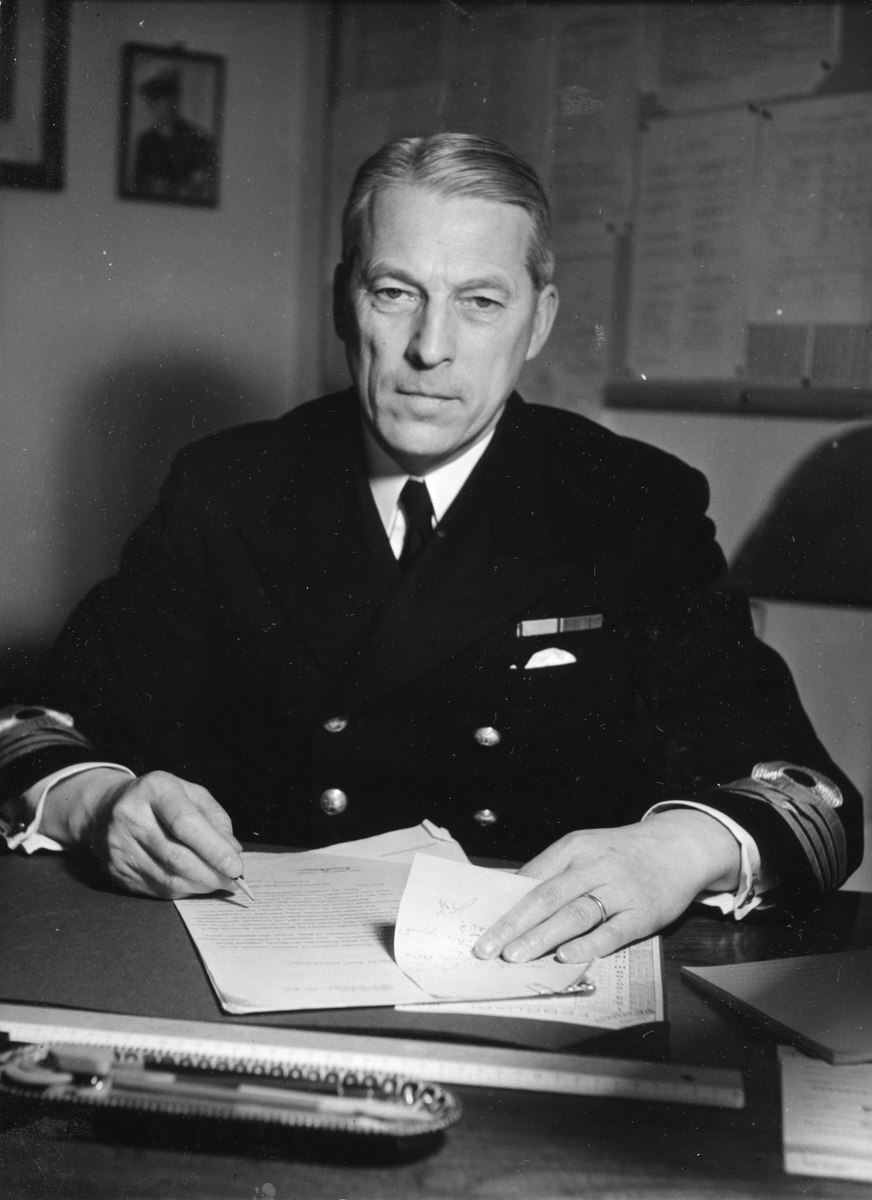 Commanding officer of the Royal Swedish Naval Academy, Captain Jens Harald Stefenson.